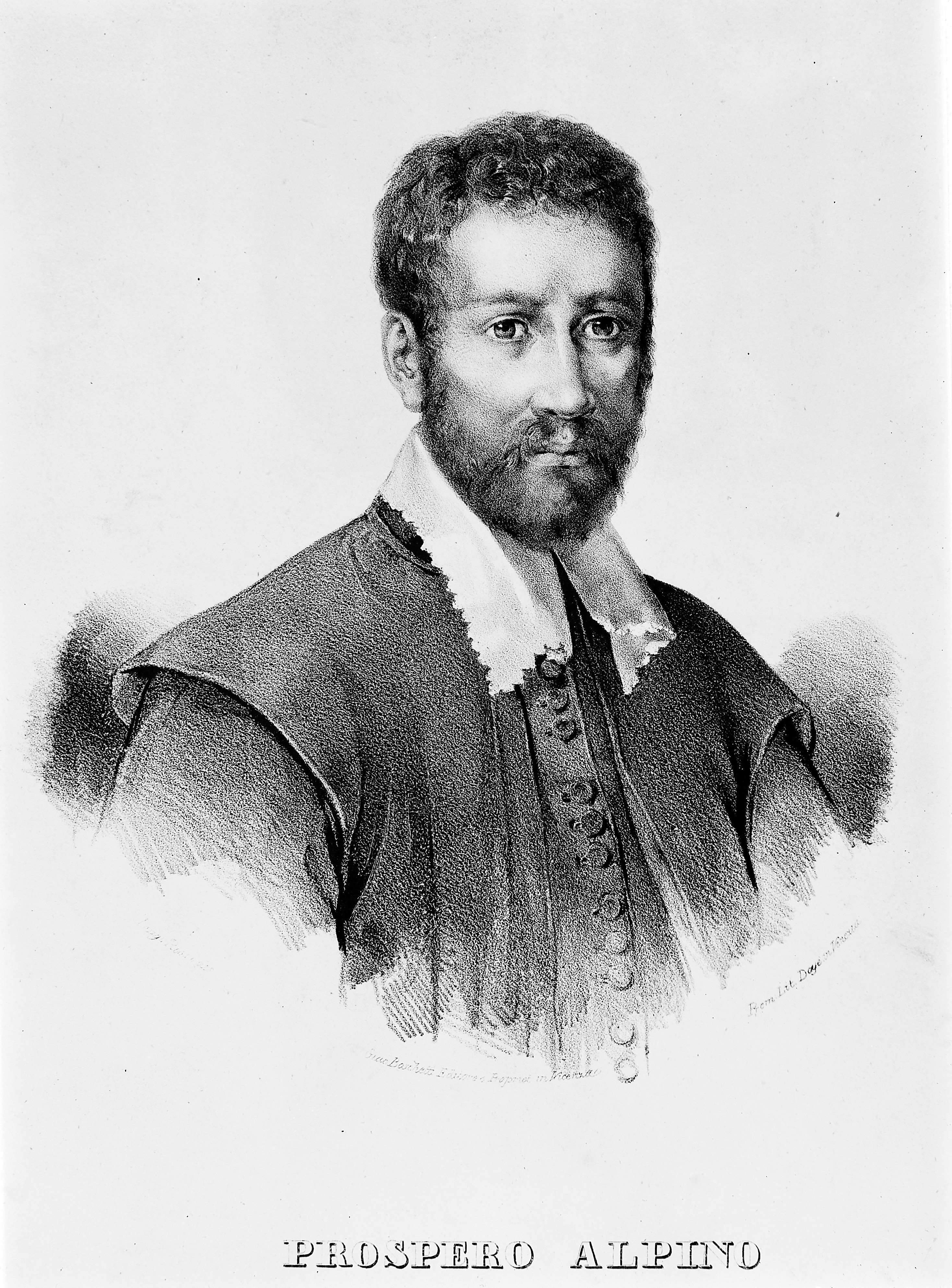 Portrait of Prospero Alpino. Iconographic Collections Keywords: Prospero Alpino